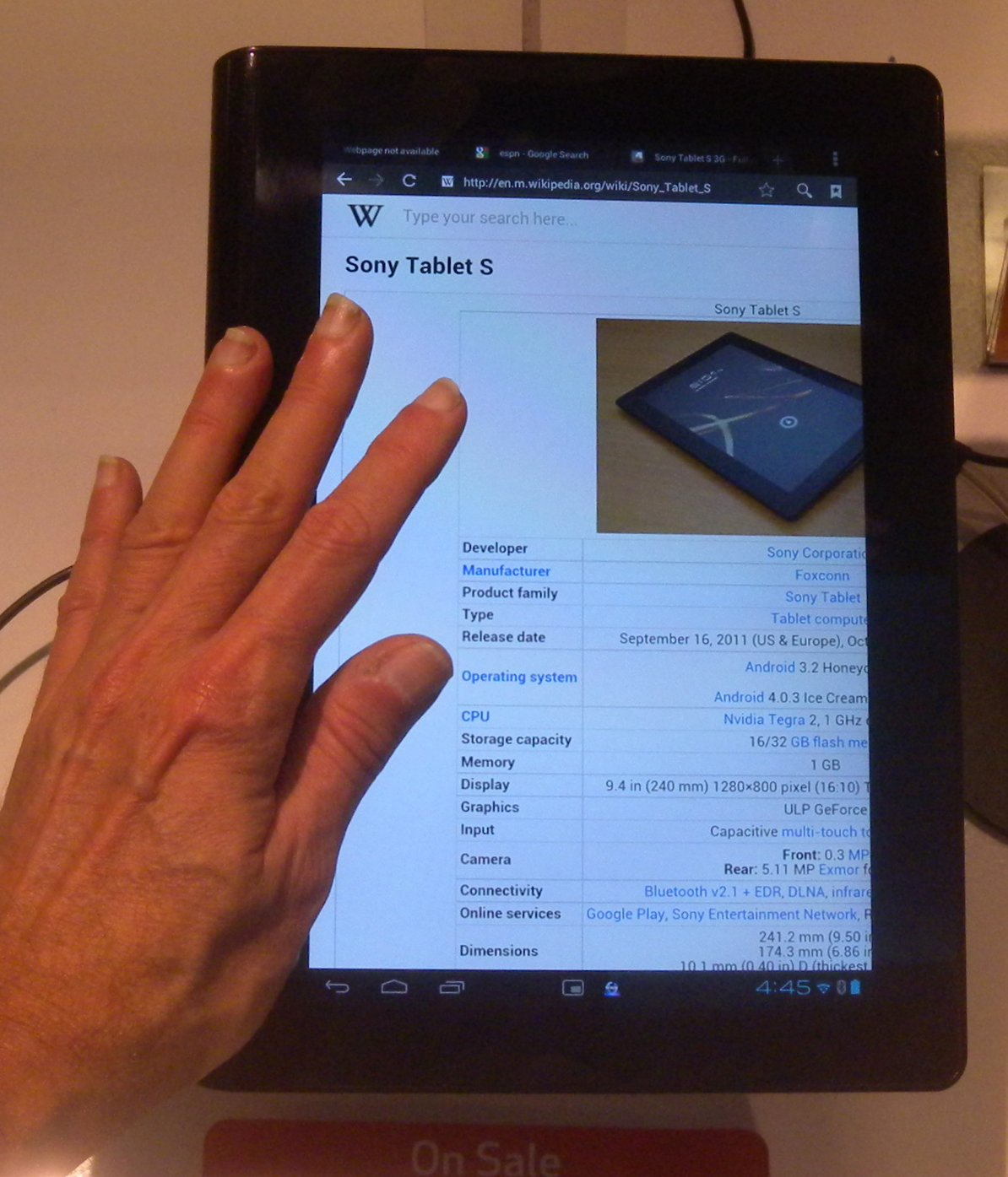 Sony Tablet S showing its own Wikipedia article.